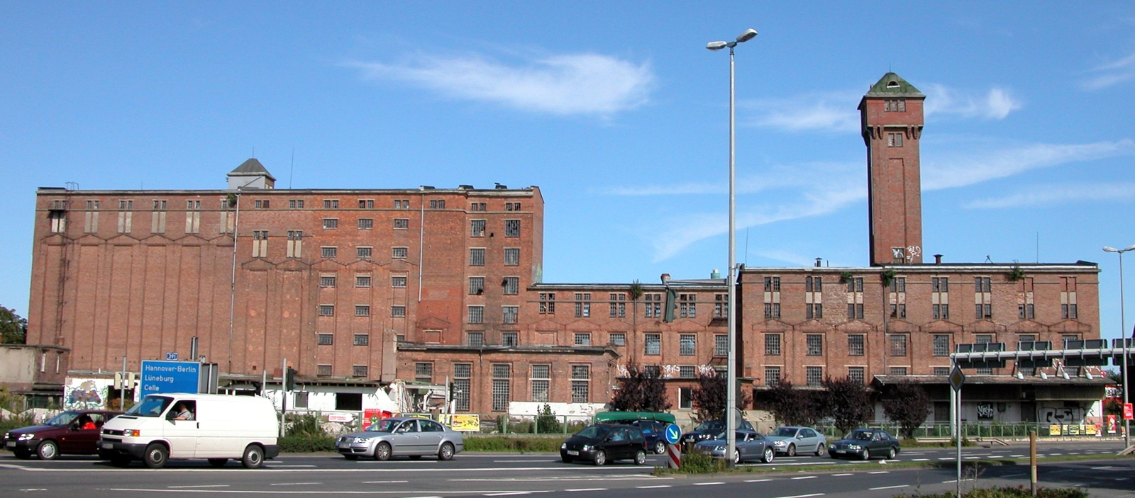 Braunschweig, Germany: Rye Mill Lehndorf as seen from the southwest.